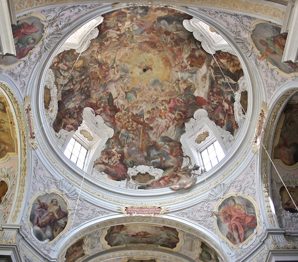 Trinity Church, inside view, Munich